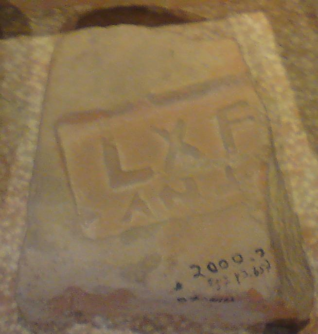 Brick Stamp-Impressions of the Legio X Fretensis - Type I